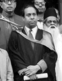 Muhammad Shahidullah, Munier Choudhury, Anisuzzaman, Nilima Ibrahim, Mufazzal Haider Chaudhury, Ahmed Sharif, Abdul Hye and others